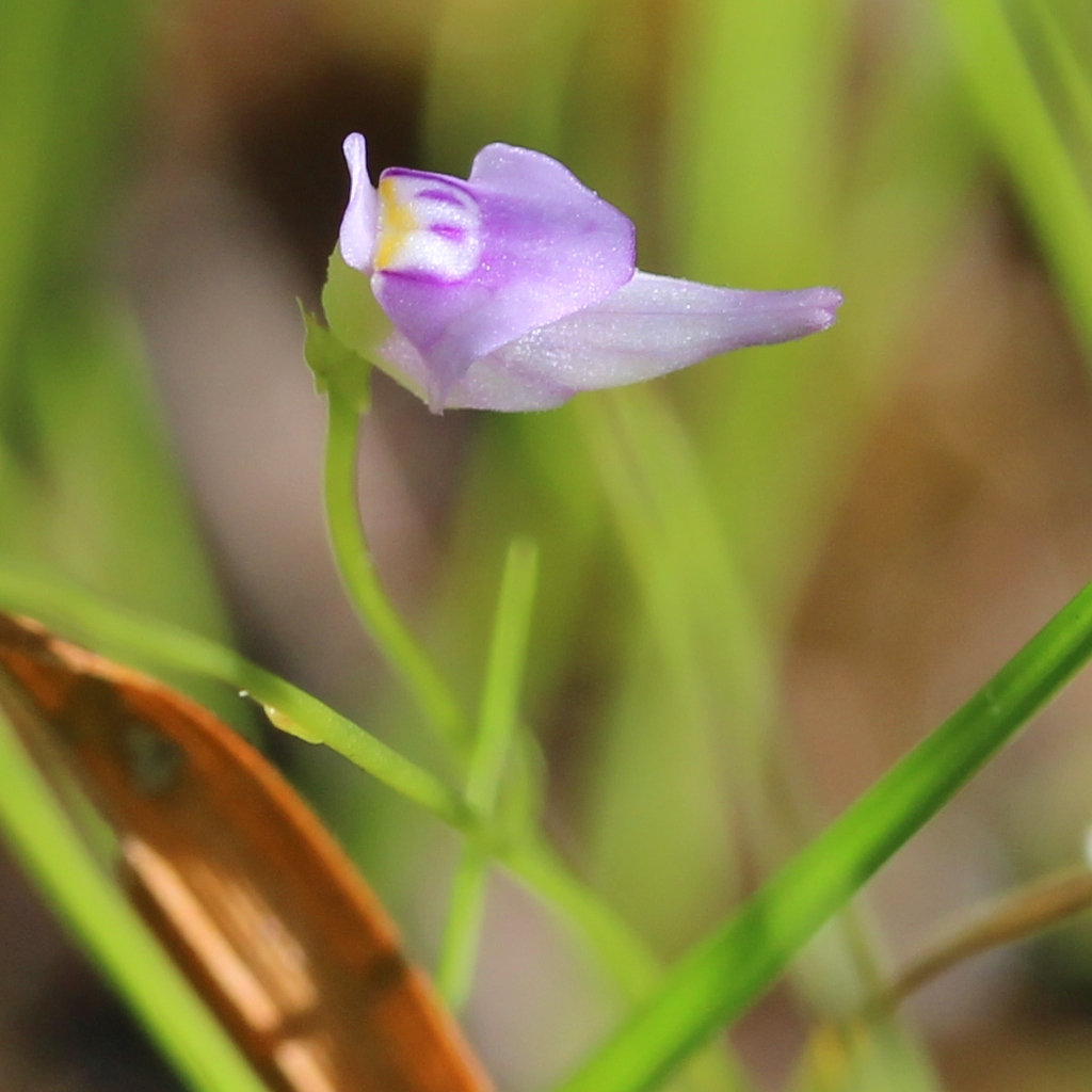 Utricularia caerulea in wetland of Japan